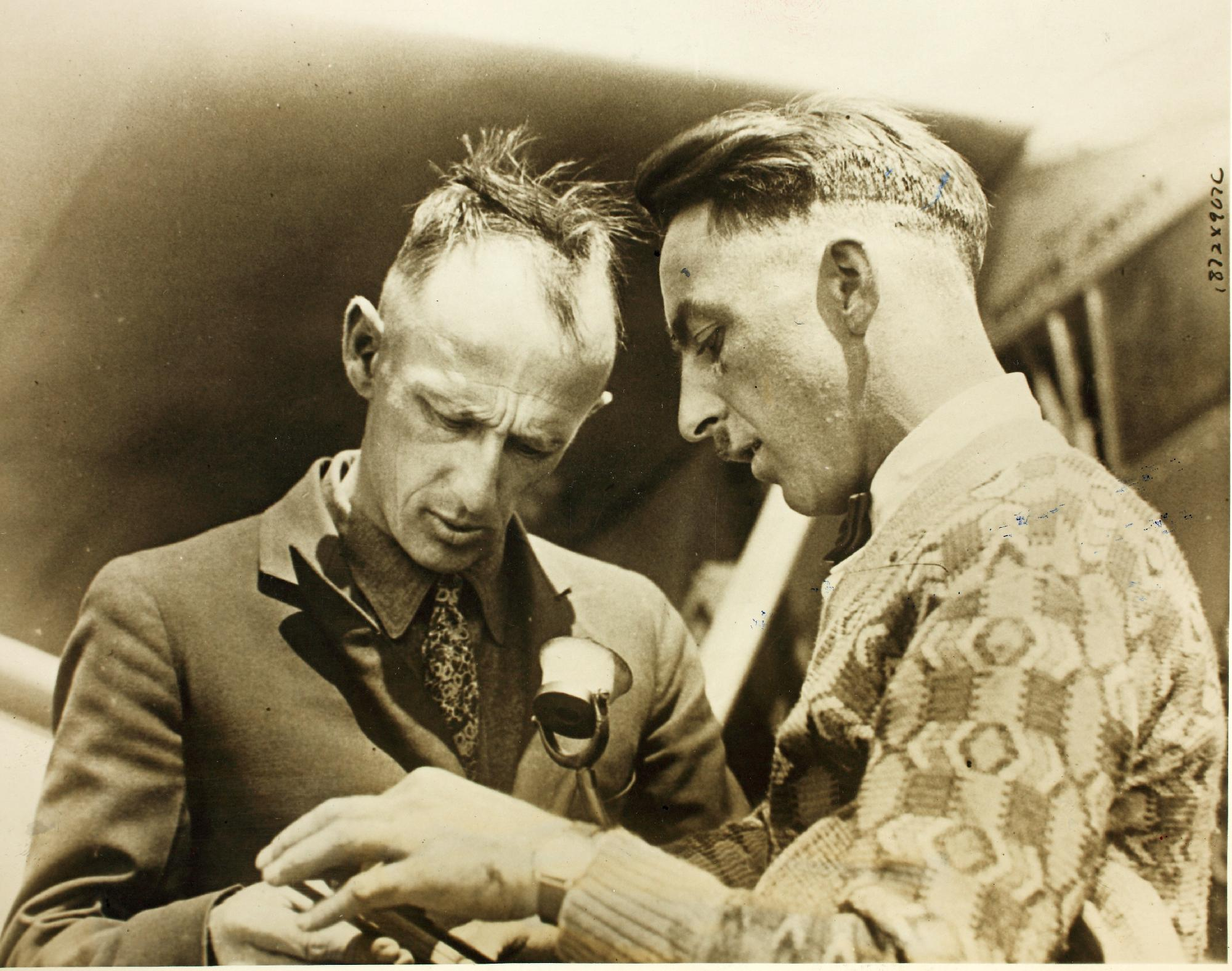 Catalog #: 10_0014426 Title: Dole Air Race Additional Information: Breese ""Aloha"" NX914 Tags: Dole Air Race, Breese ""Aloha"" NX914 Repository: San Diego Air and Space Museum Archive